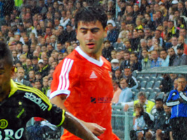 Davit Hakobyan during the UEFA Europa League match between AIK and Shirak.